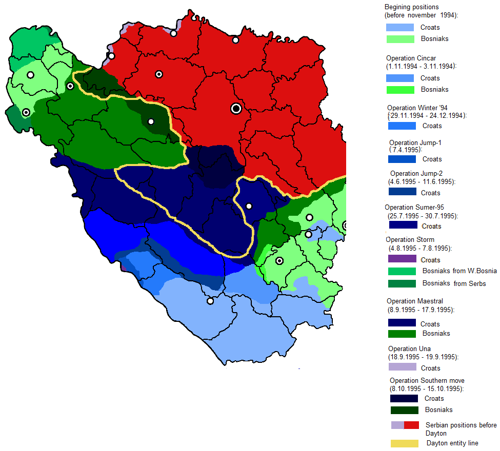 Fronts in western Bosnia, made with data from Wikipedia